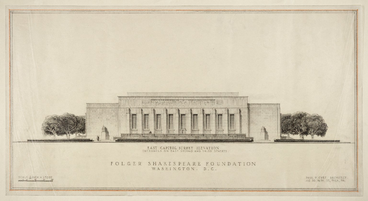 East Capitol Street elevation, lower wings, of Paul Philippe Cret's original designs for the Folger Shakespeare Library